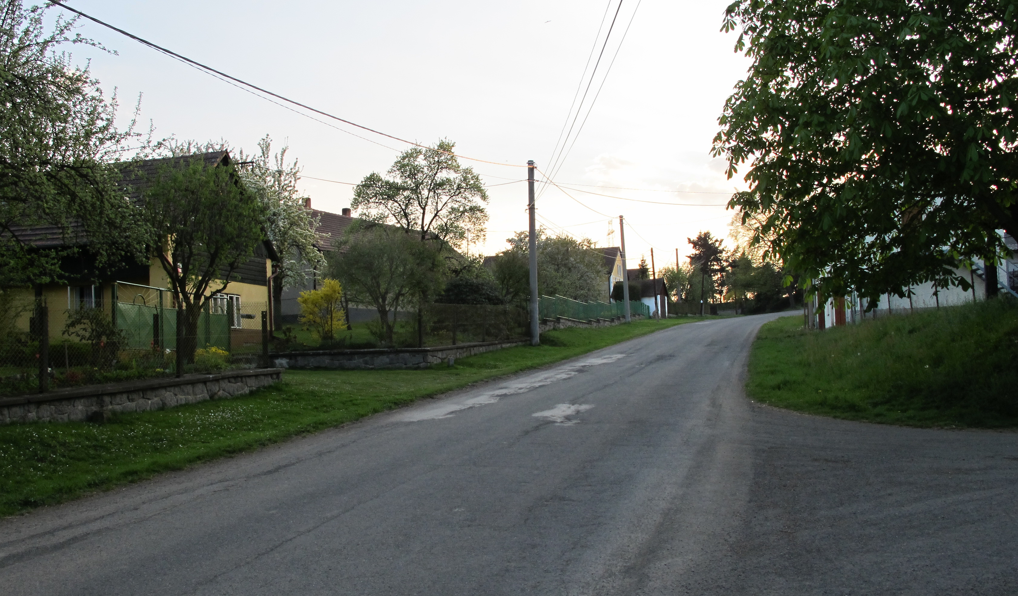 small village Dražetice, Příbram District